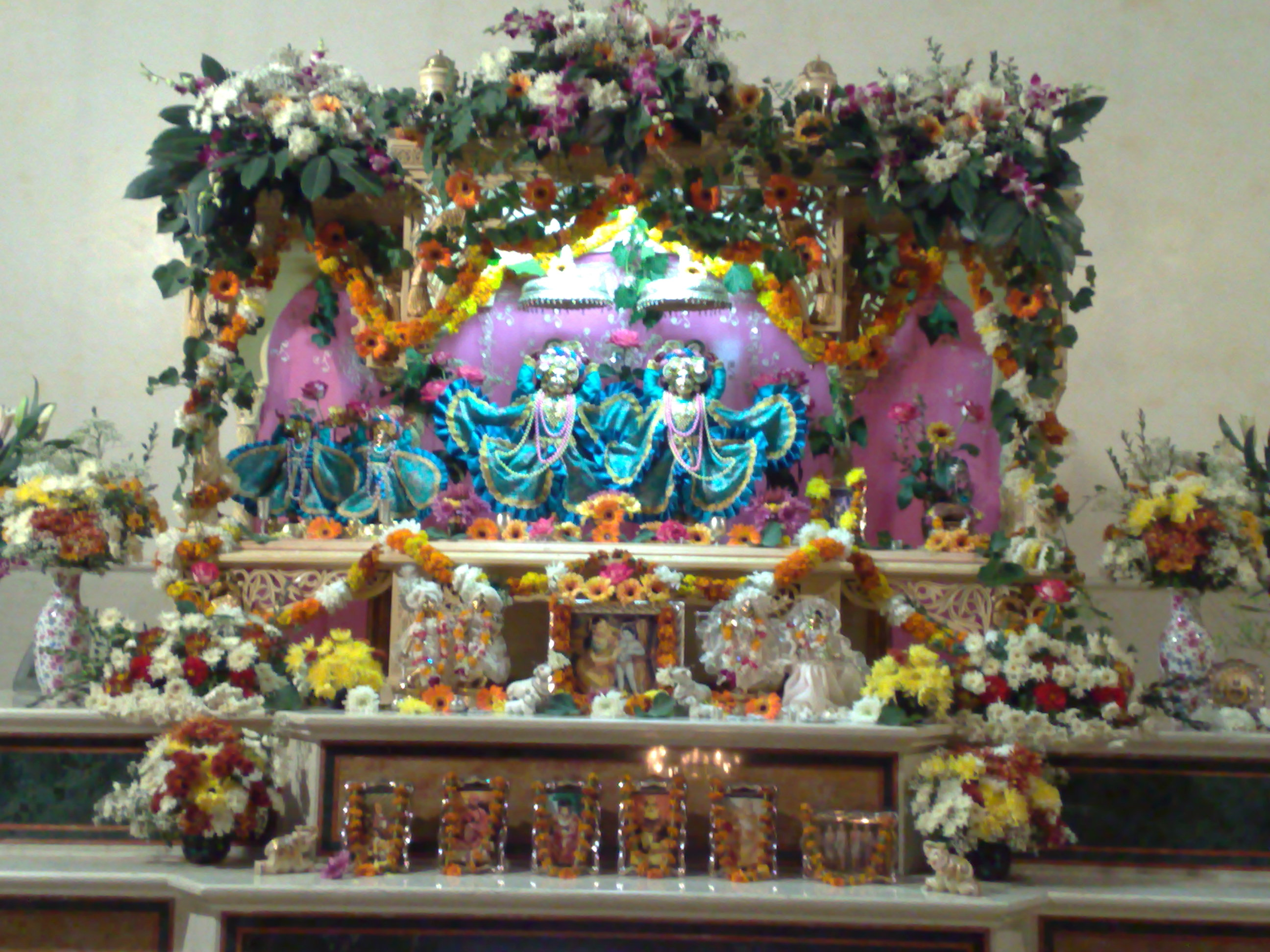 Gaura-Nitai altar in ISKCON Vicenza temple